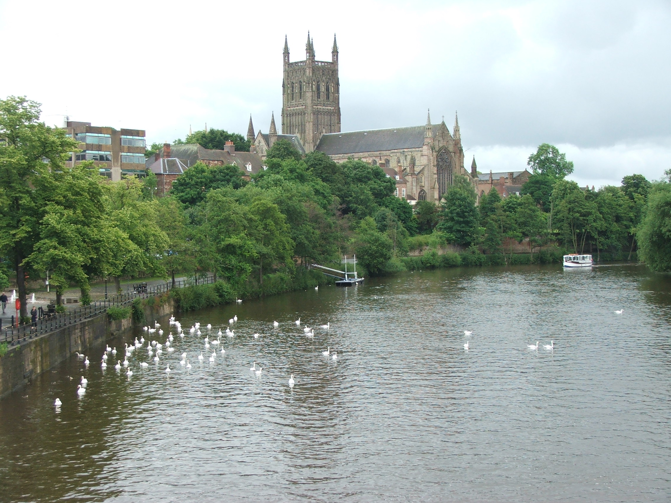 Worcester Cathedral seen from the bridge on the Severn River